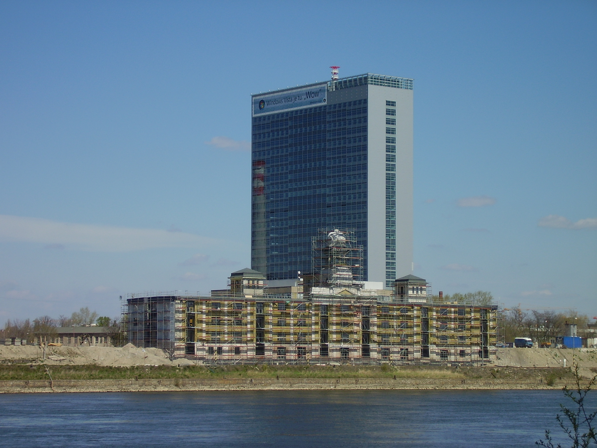 Tower 115, Bratislava